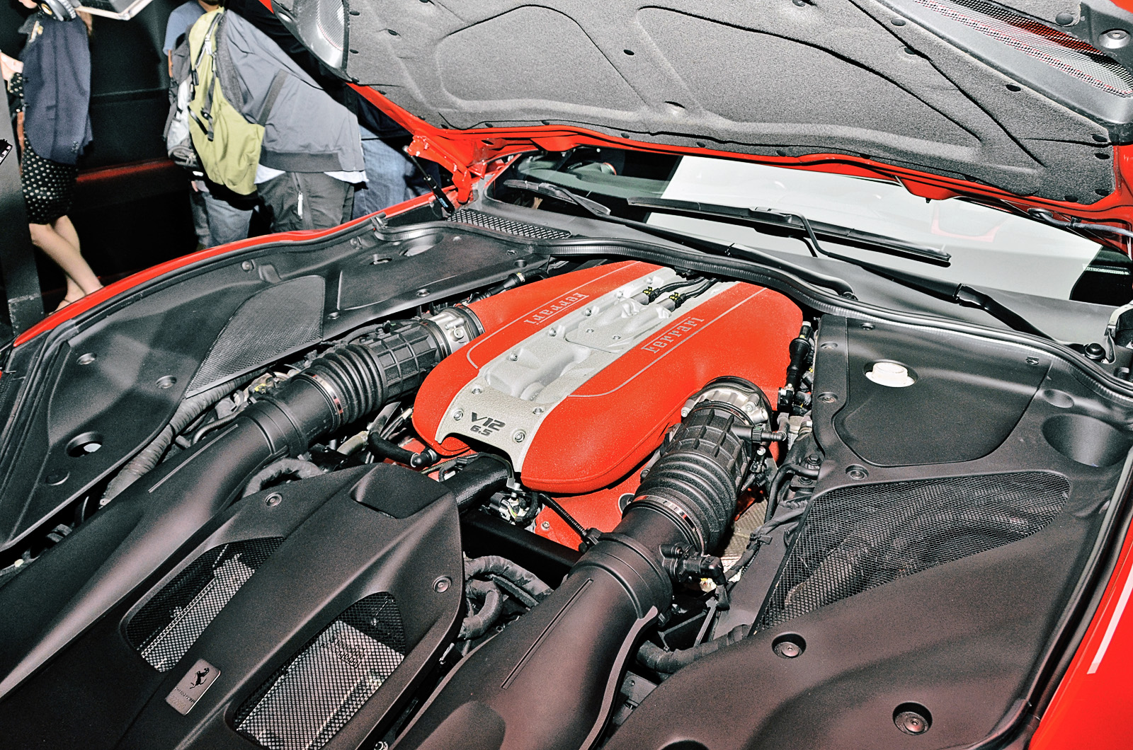 812 Superfast engine compartment